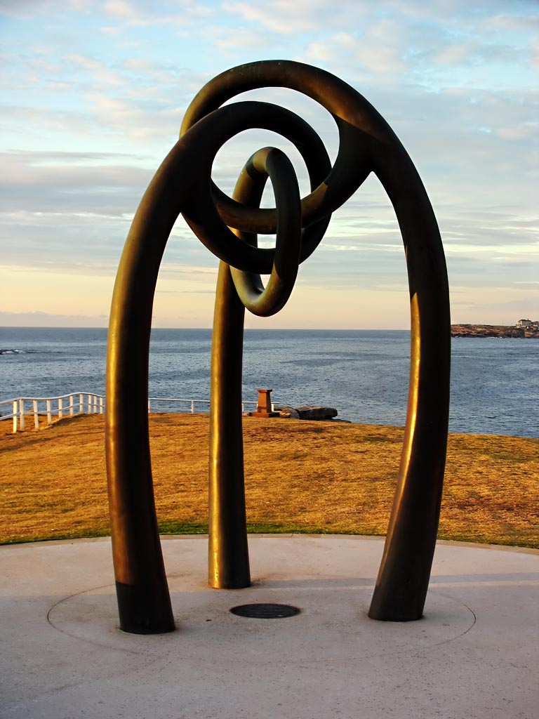 Memorial of Bali terrorist bombing in 2002 in Coogee, New South Wales, Australia